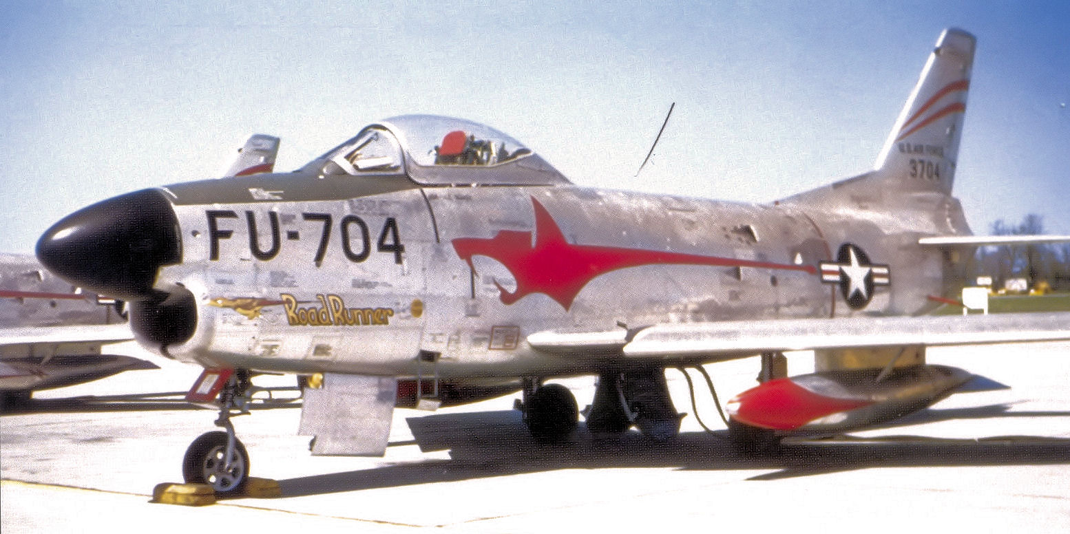 97th Fighter-Interceptor Squadron North American F-86L-55-NA Sabre 53-704 4706th Air Defense Wing, Wright-Patterson Air Force Base, Ohio, 1954 Aircraft now on static display at Travis AFB museum, California